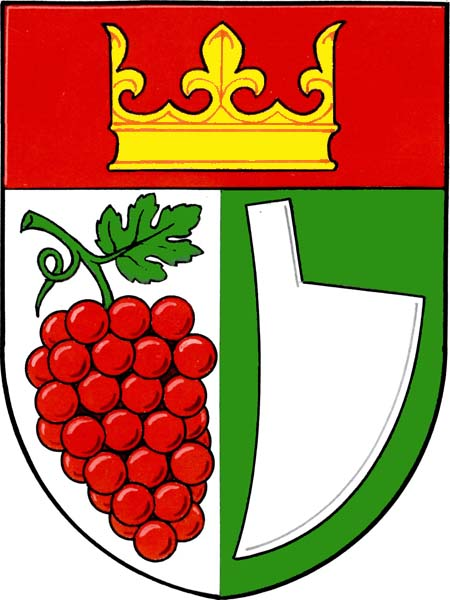 Municipal coat of arms of Josefov village, Hodonín District, Czech Republic.